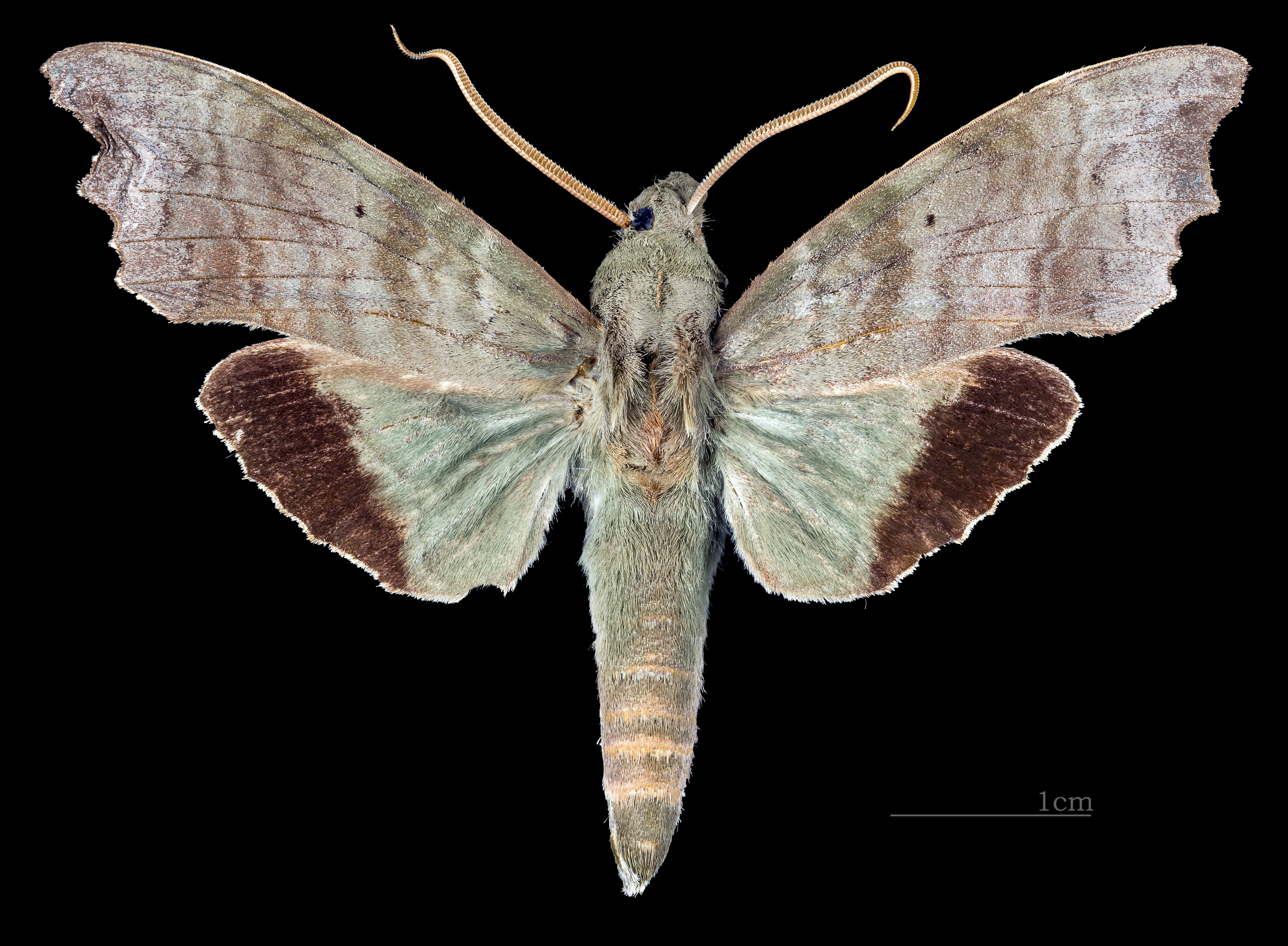 Aleuron chloroptera - Dorsal side